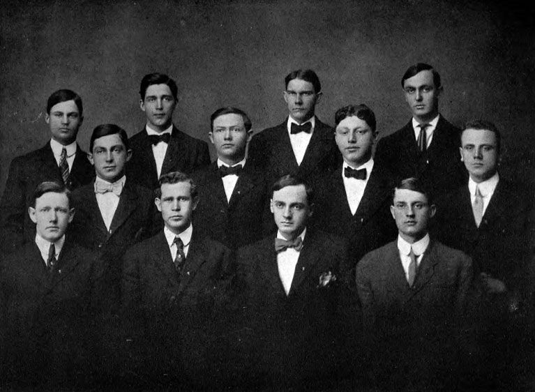 Membership photo of the founding members of the ANAK Society in 1908. From left to right: Front row: Charles A. Sweet (Treasurer), Harry R. Vaughan (Vice President), George W. McCarty (President) and Lewis E. Goodier (Secretary). Middle row: L. W. Robert, S. J. Hargrove, G. A. Hendrie and W. R. Snyder. Back row: J. E. Davenport, C. L. Emerson, G. W. H. Cheney and C. A. Adamson. Source: the 1908 Blue Print, Georgia Tech's yearbook, page 146. Available online at